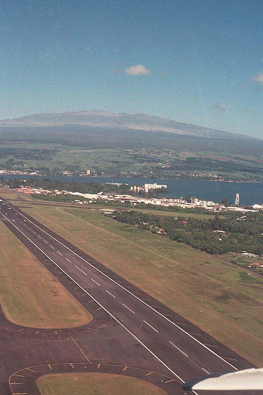 Departing Hilo International Airport in Hawaii with Mauna Loa in the background. Taken in 1990.